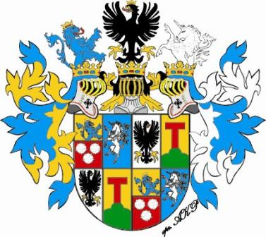 Coat of arms of the Counts Henckel von Donnersmarck.